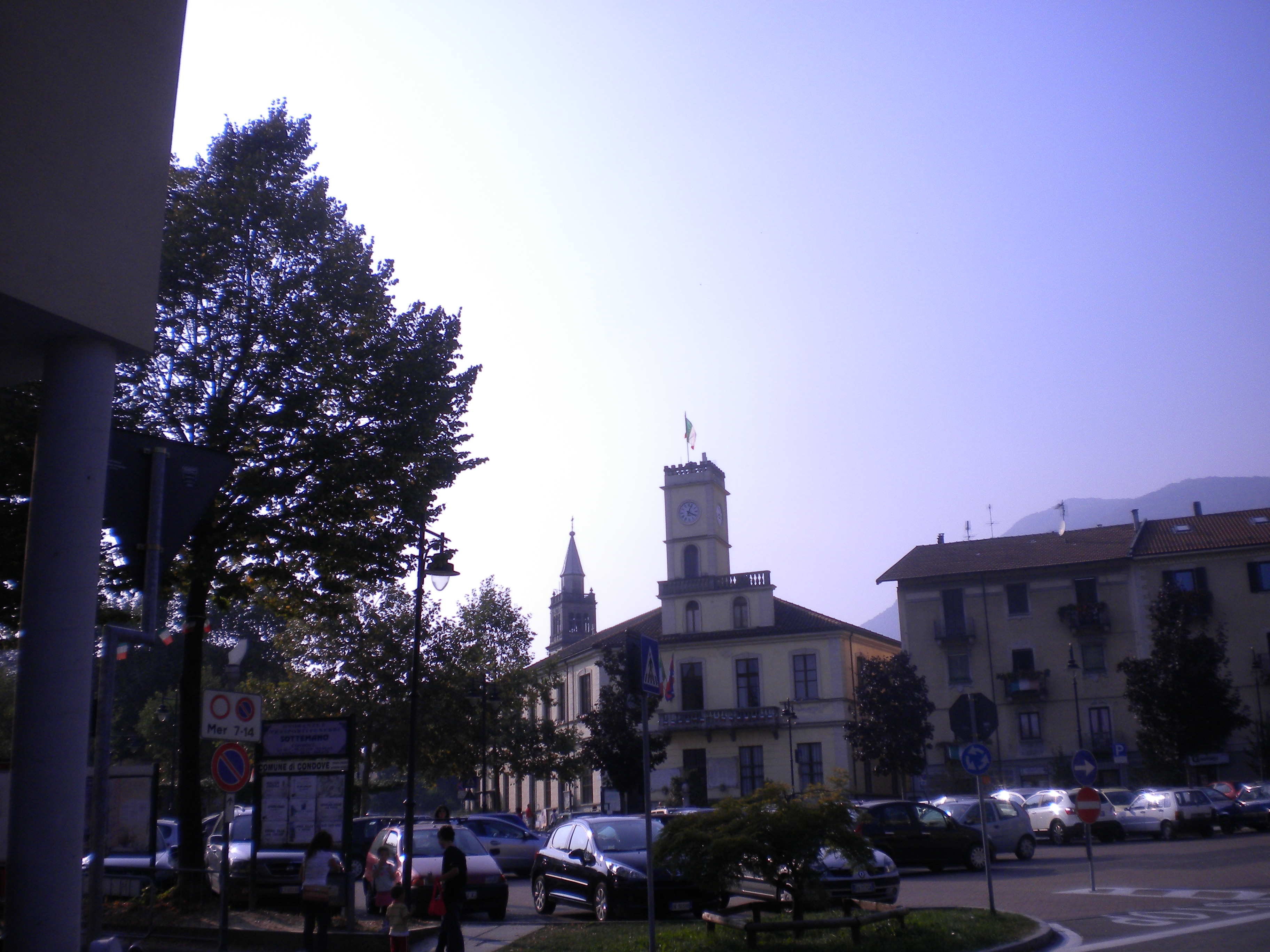 town hall